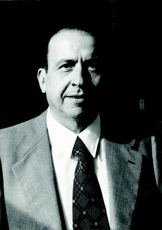 Adriano Barlotti, 1975 in Erlangen